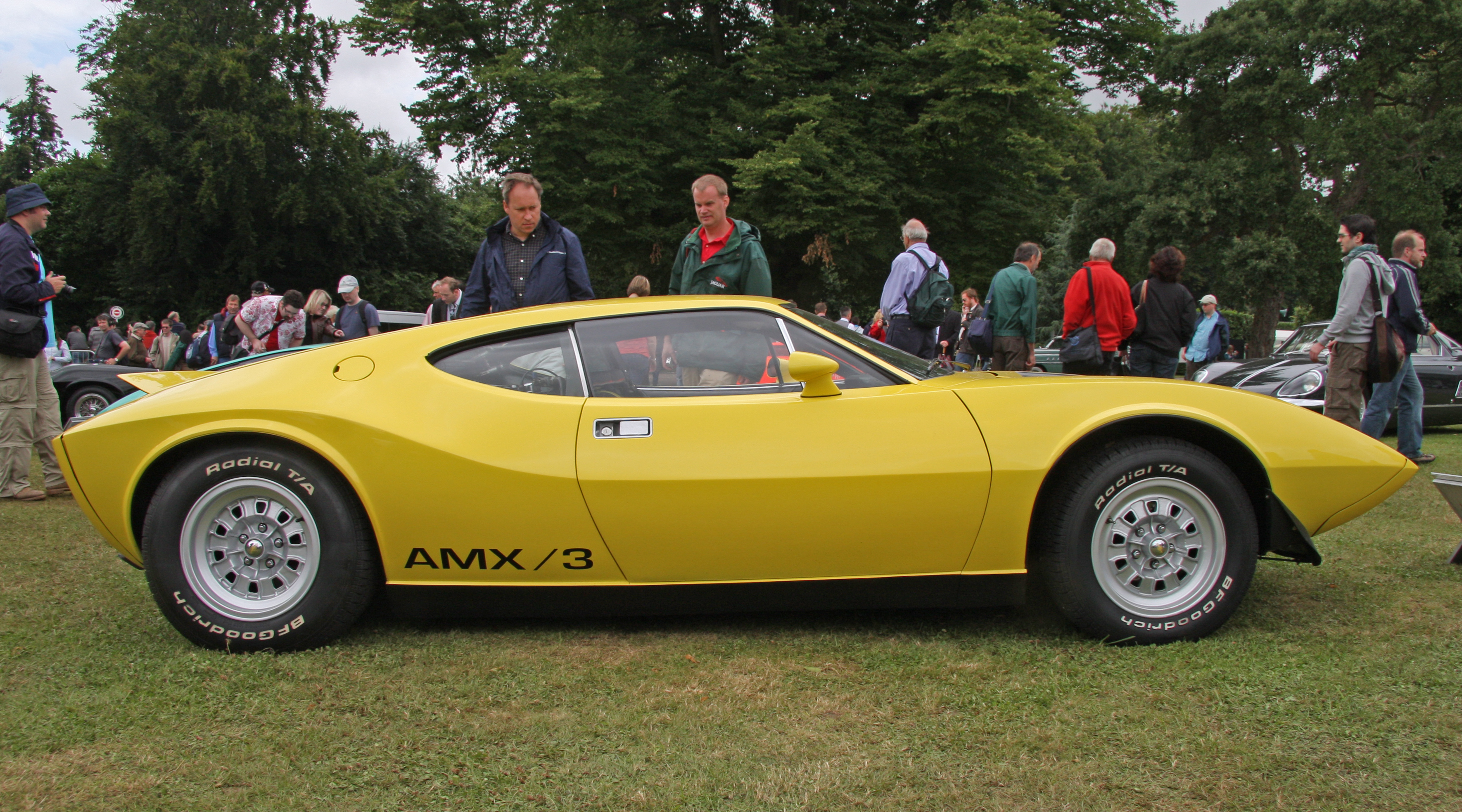 The AMC AMX/3 Concept